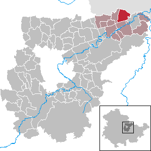 Auerstedt in Thuringia - District Weimarer Land